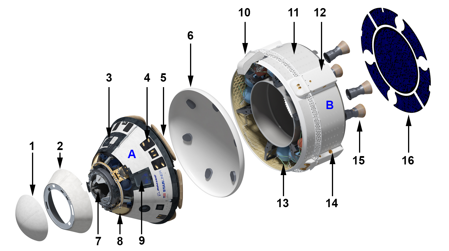 Diagram-of-CST-100-Starliner with labels